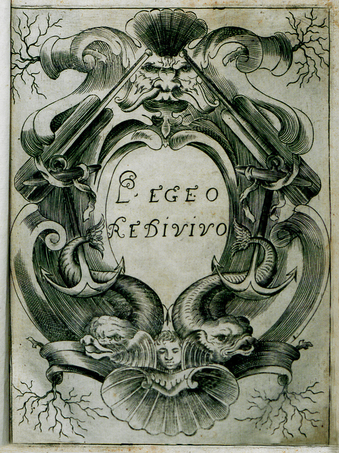 Prometopis - Piacenza Francesco - 1688